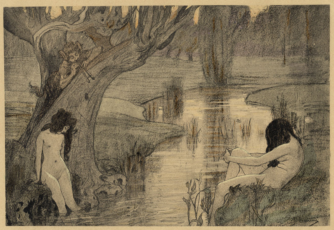 Le Bain des nymphes by Paul Albert Laurens, lithographic print from L'Estampe moderne, vol. I, Paris, F. Champenois.